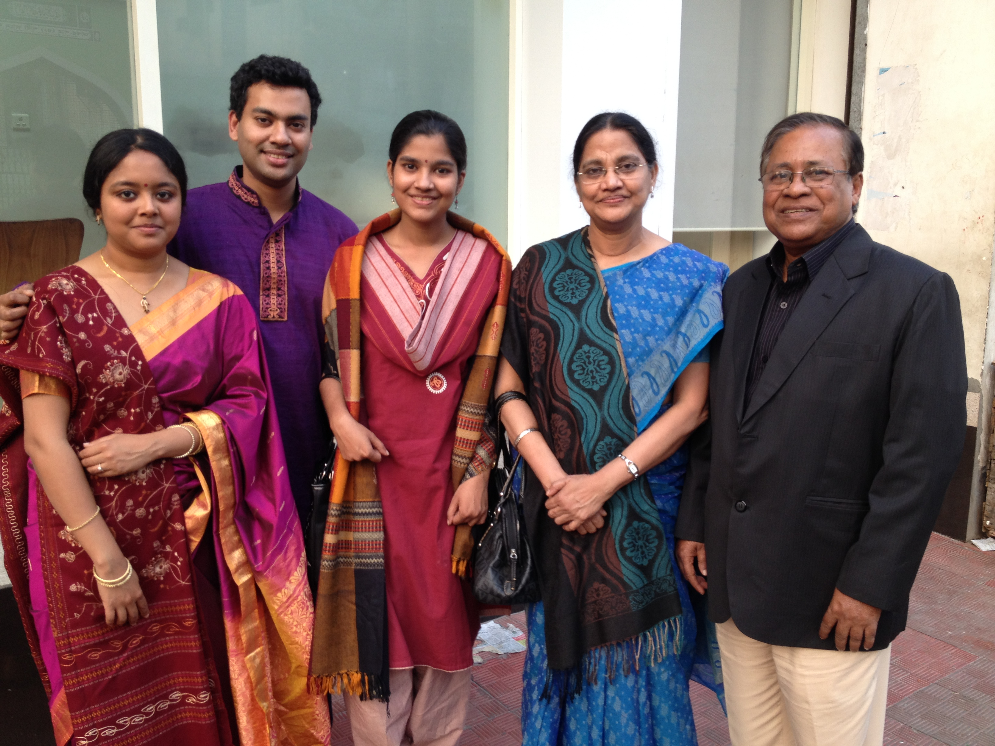 Naznin Nahar with his family